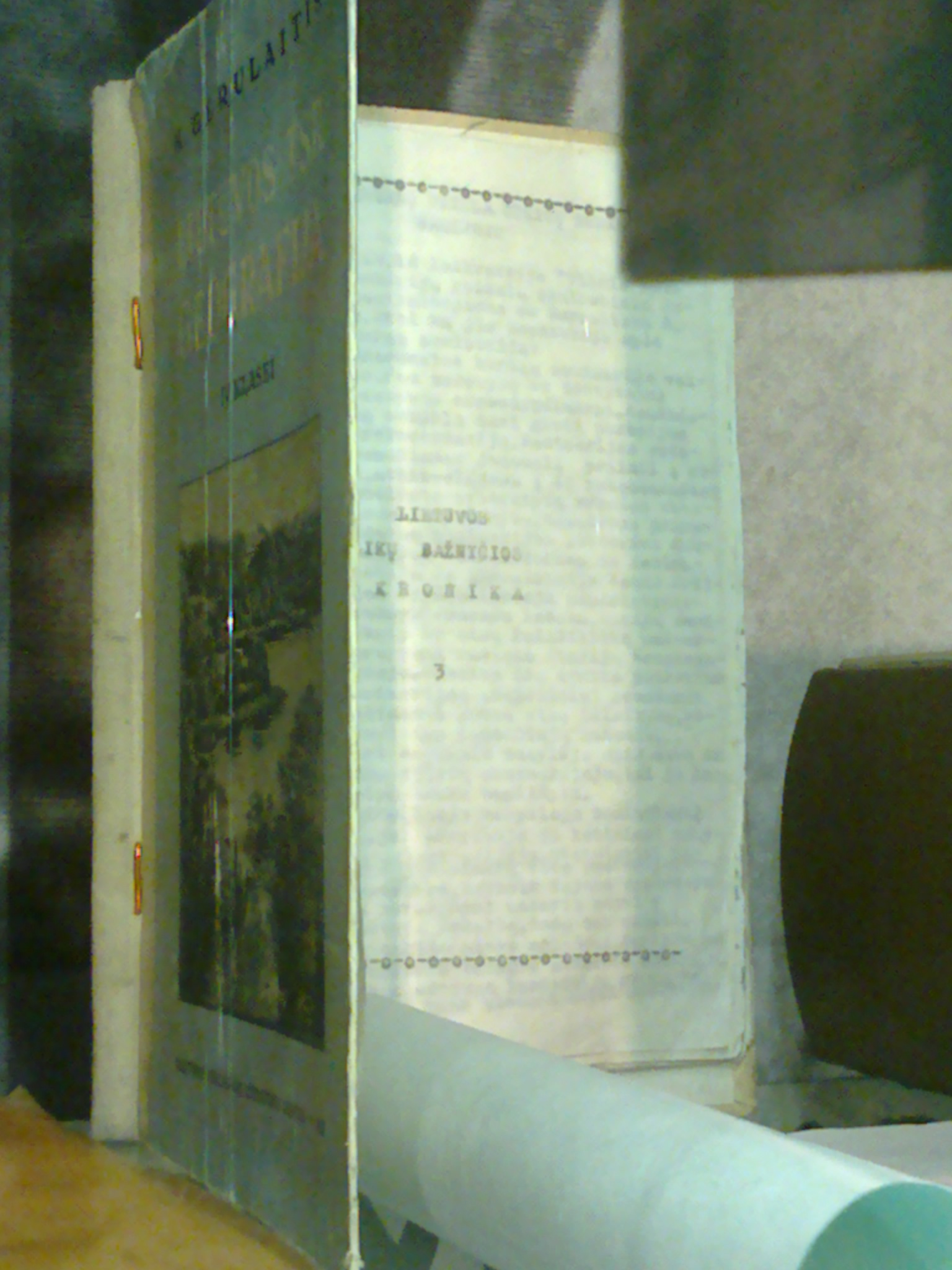 samizdat seen in Museum of Genocide Victims Vilnius